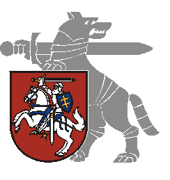 Insignia of the Ministry of National Defence of the Republic of Lithuania